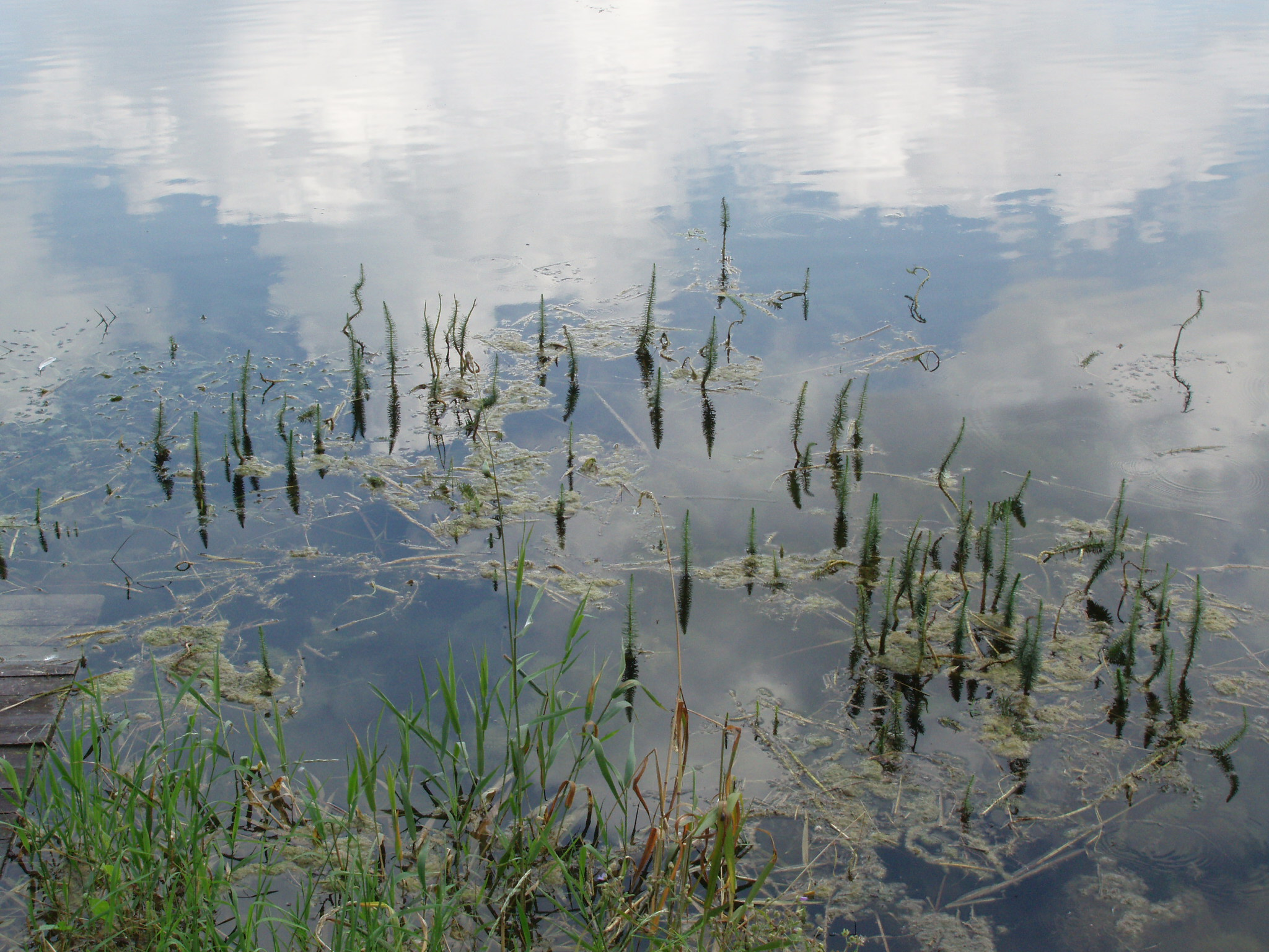 Hippuris vulgaris in natural monument Kusá hora, Chrudim District, Czech Republic